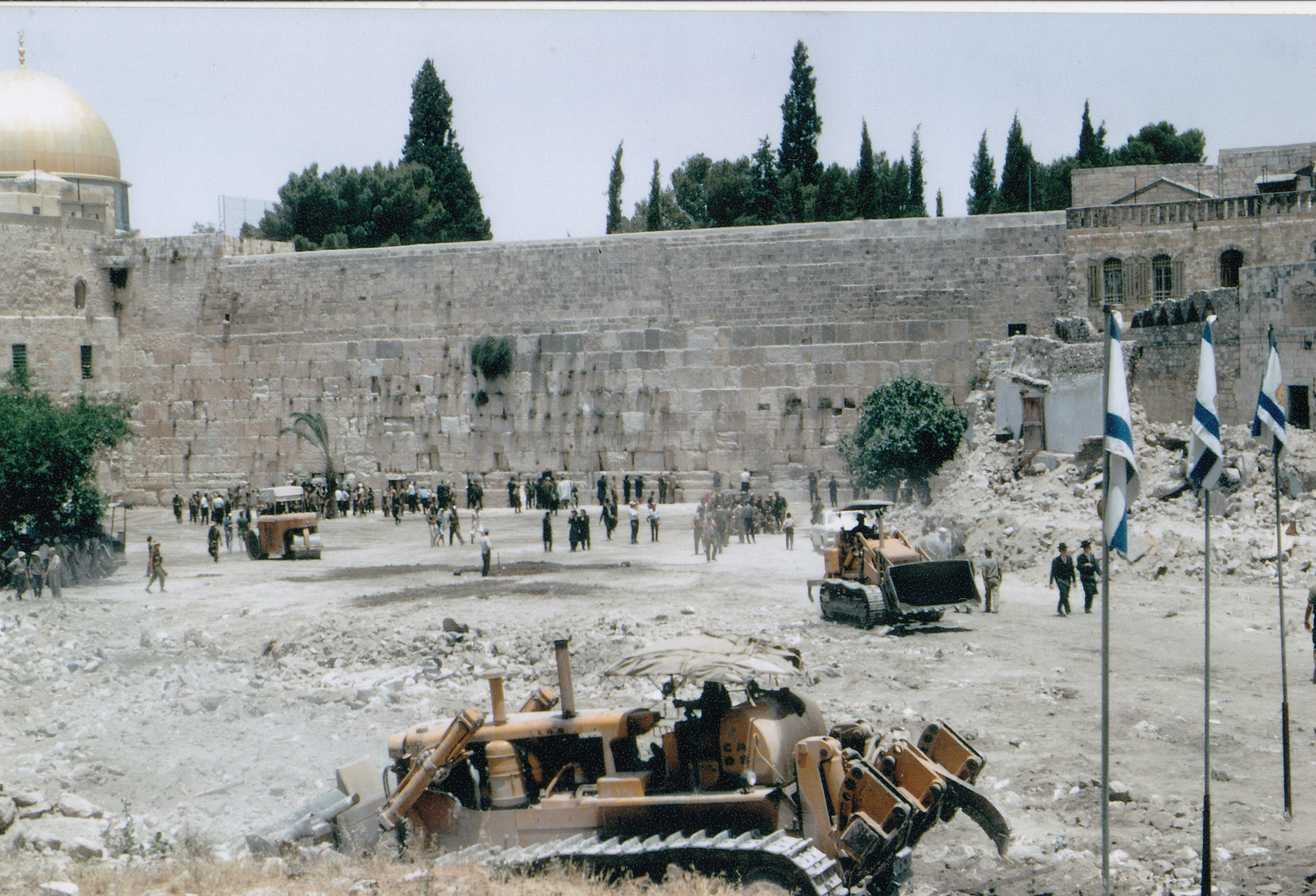 A few days after Israel entered the old city of Jerusalem in the Six Days War it cleared the most sacred Jewish place - the Western Wall of the Temple